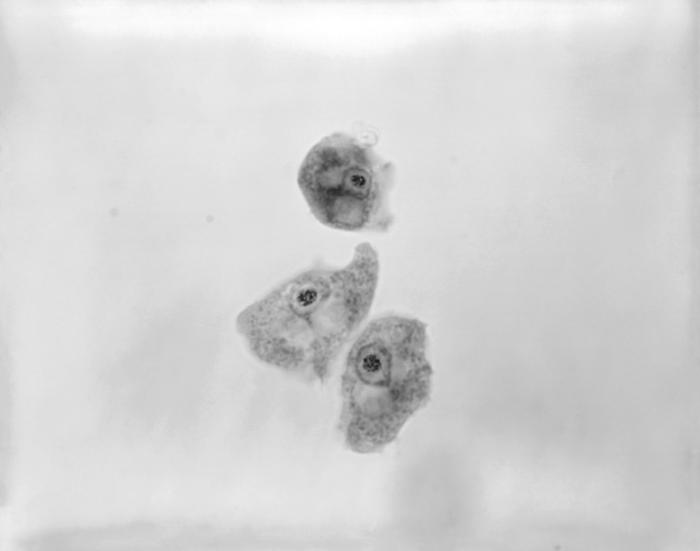 This 1973 photomicrograph depicted three Naegleria gruberi free-living amoebae. Free-living amoebae belonging to the genera Acanthamoeba, Balamuthia, and Naegleria, are important causes of disease in humans and animals.